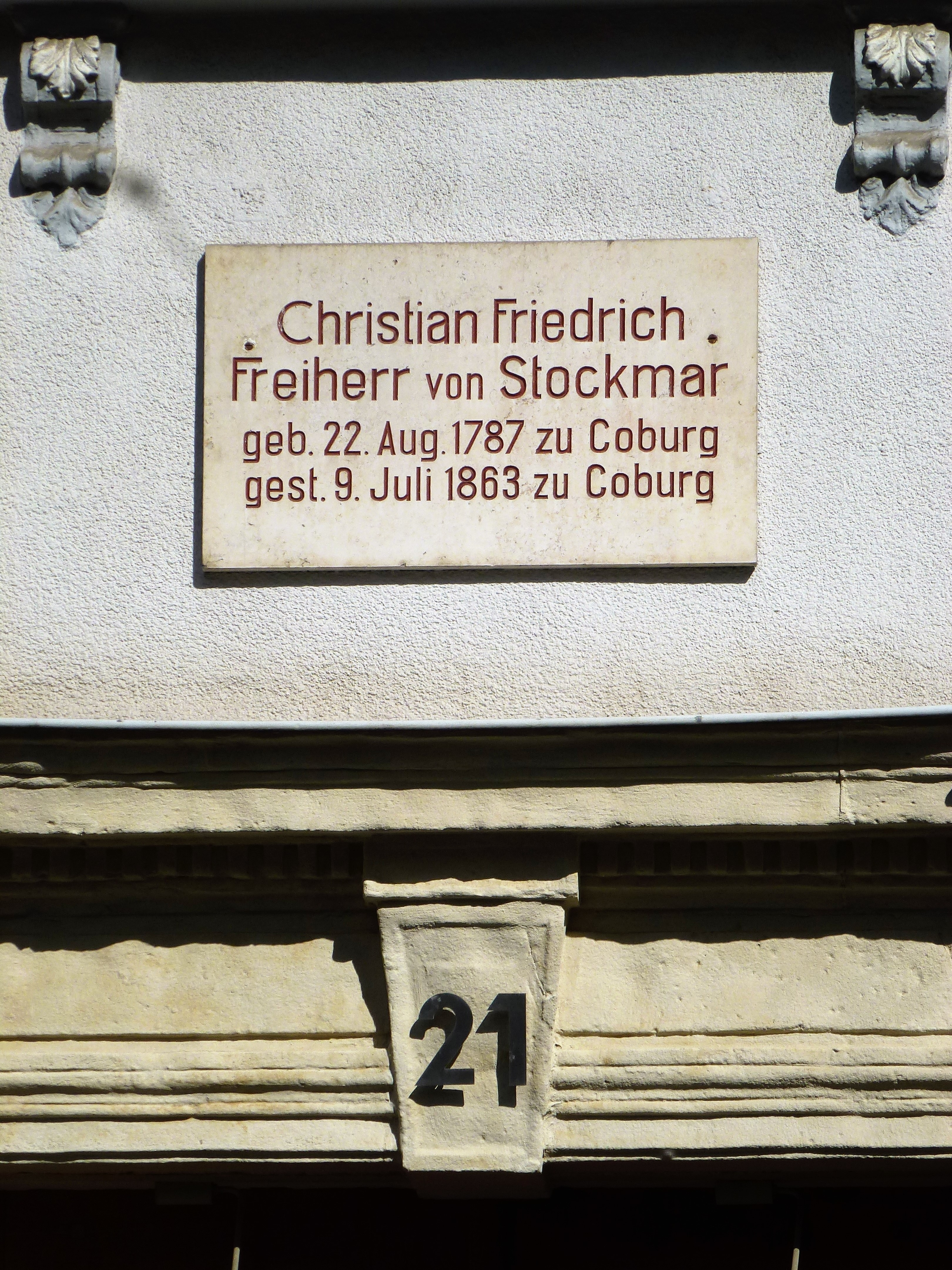 Commemorative plaque for Christian Friedrich von Stockmar